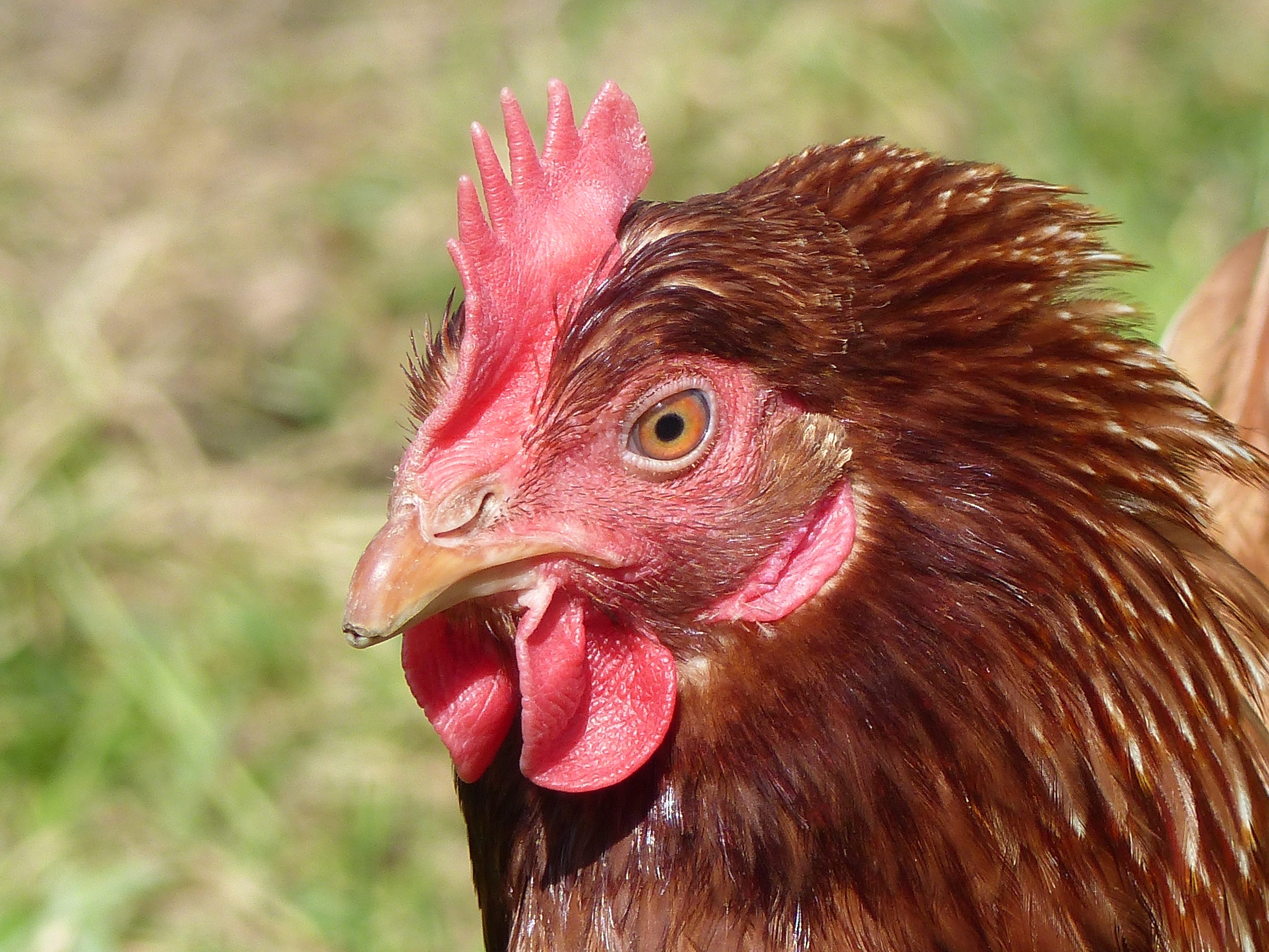 Hen from Bailleul-Neuville, Normandy.